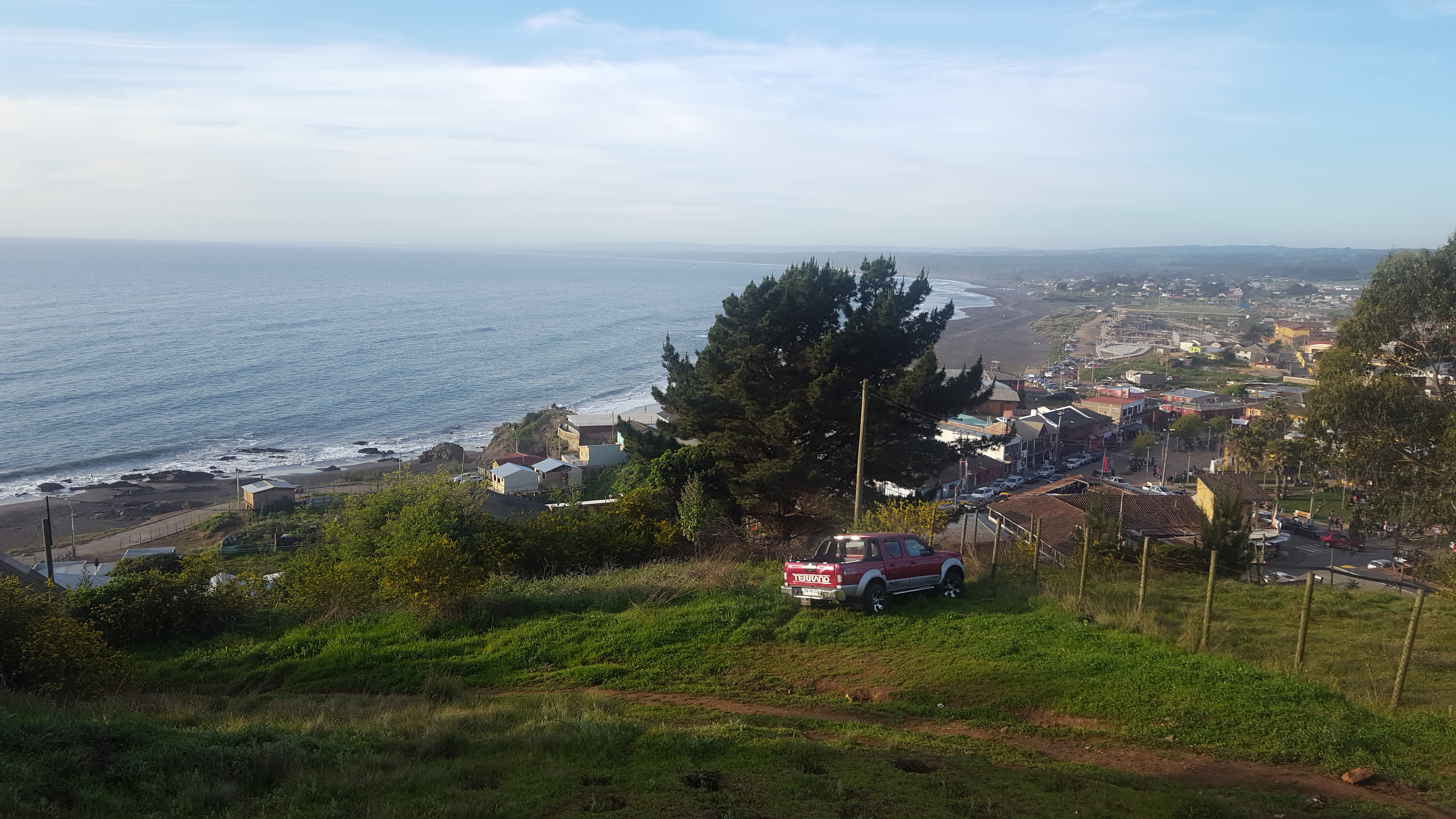 vista pelluhue